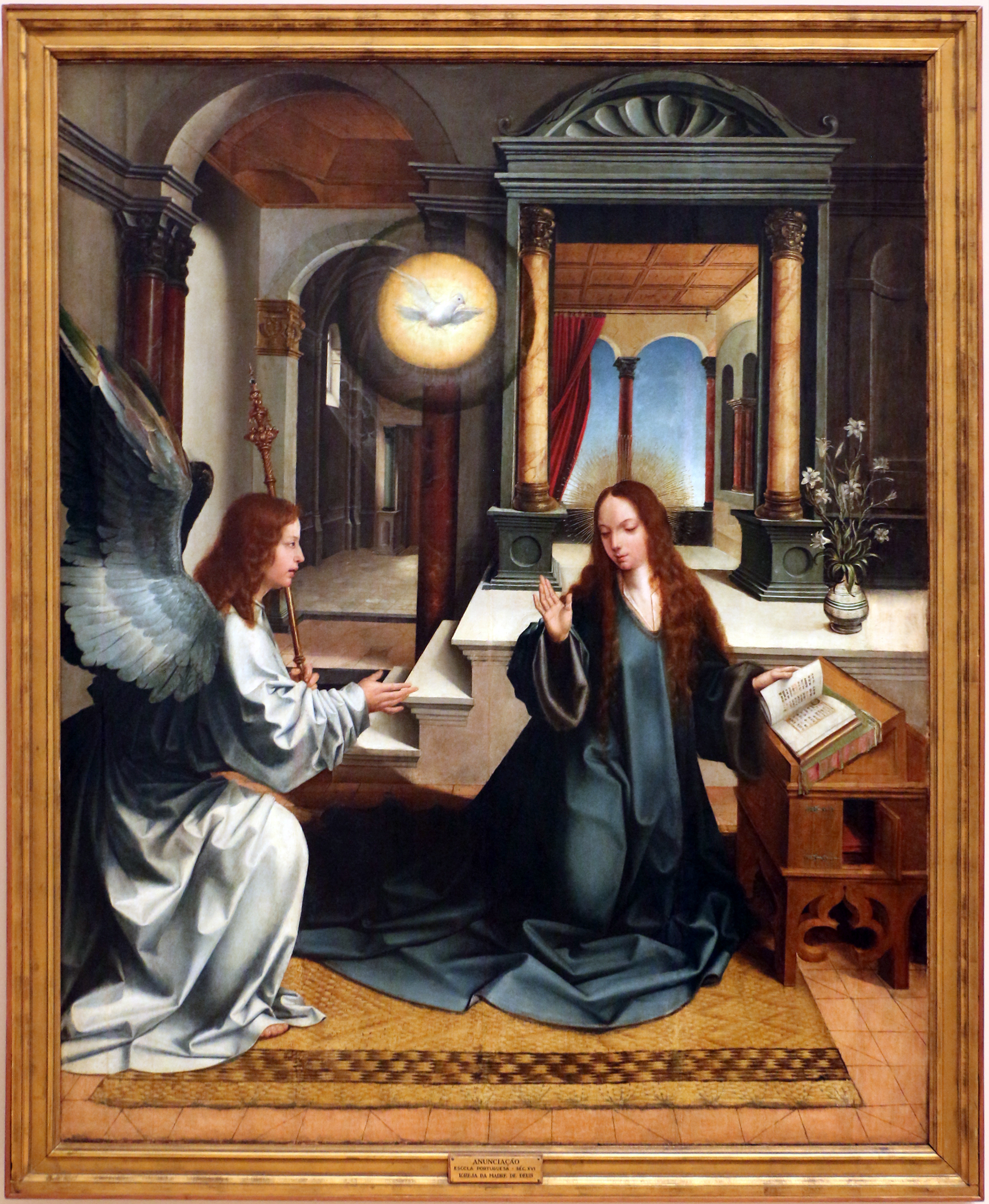 Políptico do Convento da Madre de Deus